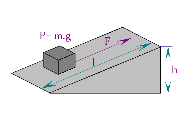 nclined plane